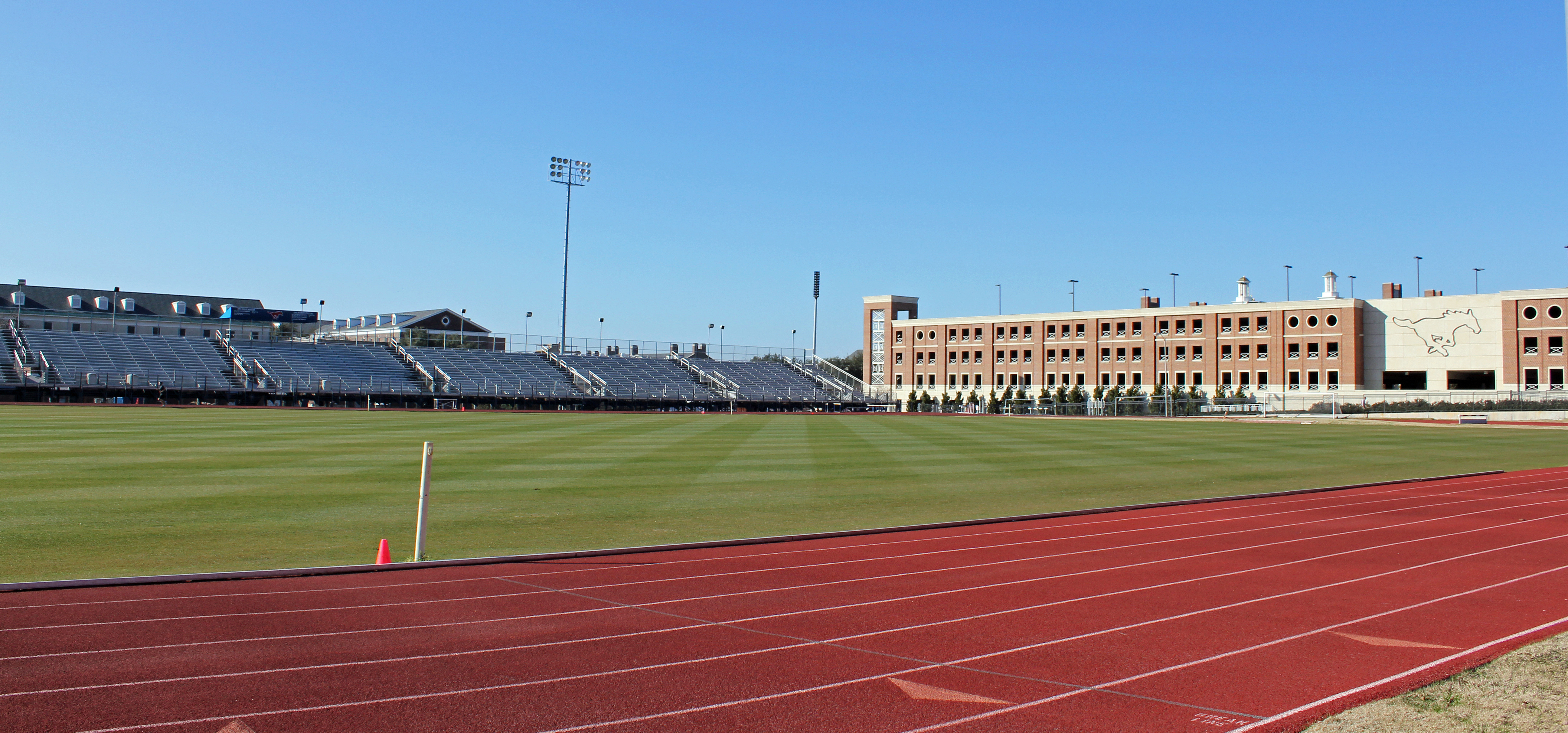 Westcott Field, a soccer and practice field on the Southern Methodist University campus.